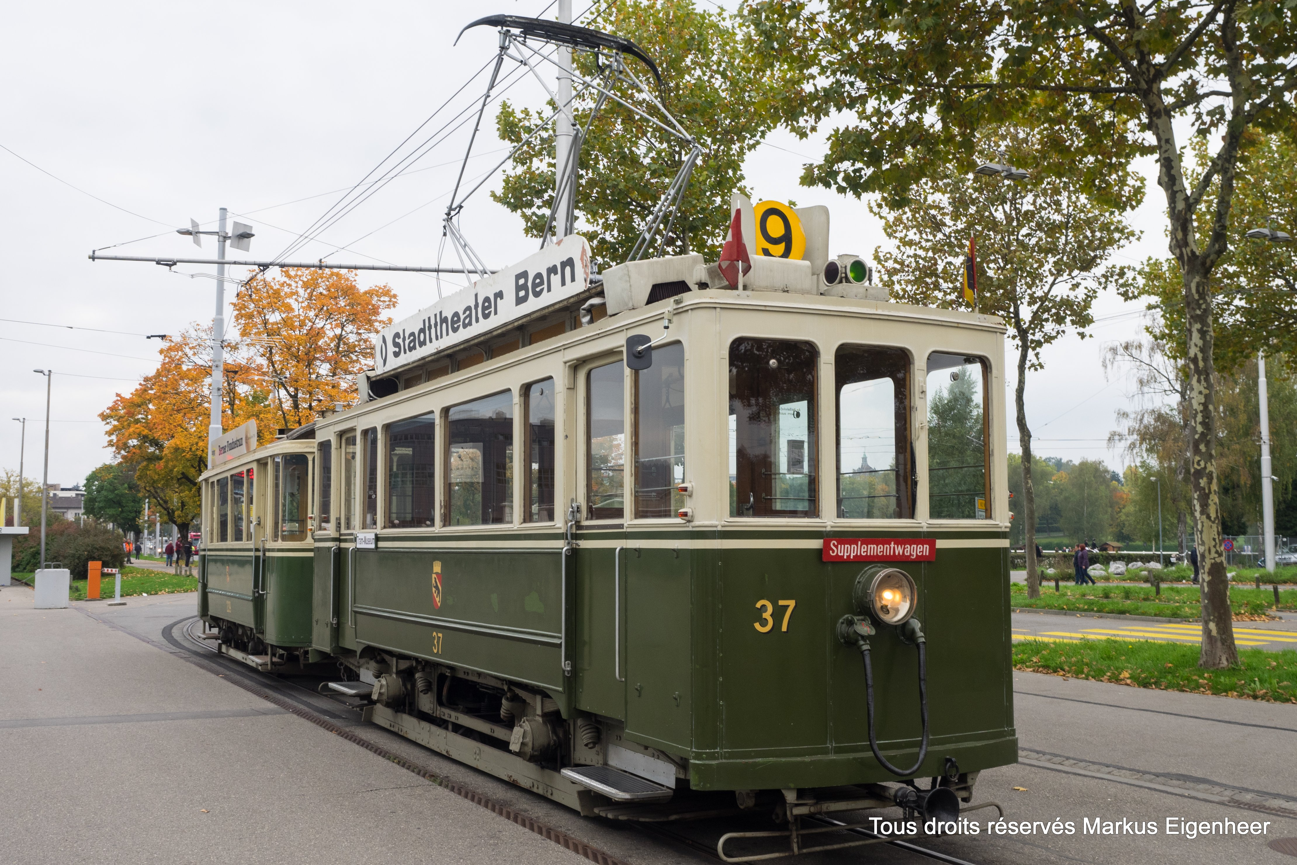 Bern 11.10.2015